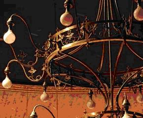 Victorian Chandelier hanging in the Citizens Theatre, Glasgow